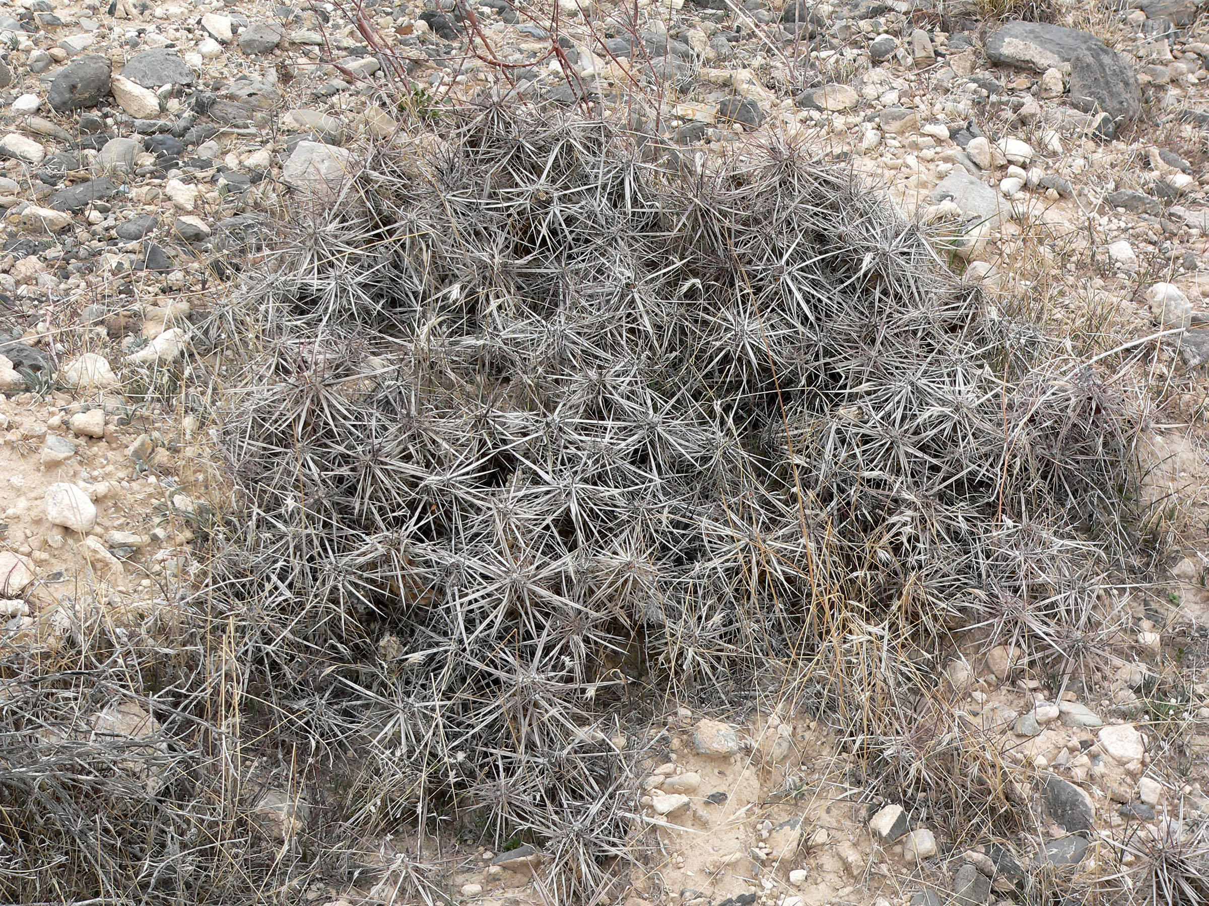 Grusonia parishii in Coyote Spring Valley near where Pahranagat Wash crosses the Great Basin Highway, southern Nevada